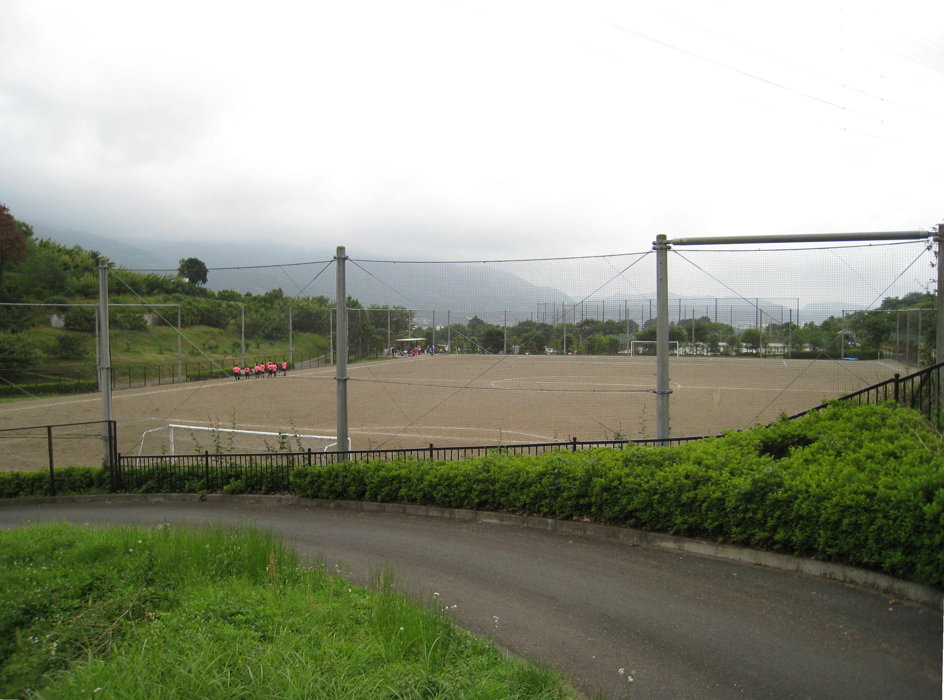 Minamiashigara SportsPark Multi Purpose Ground